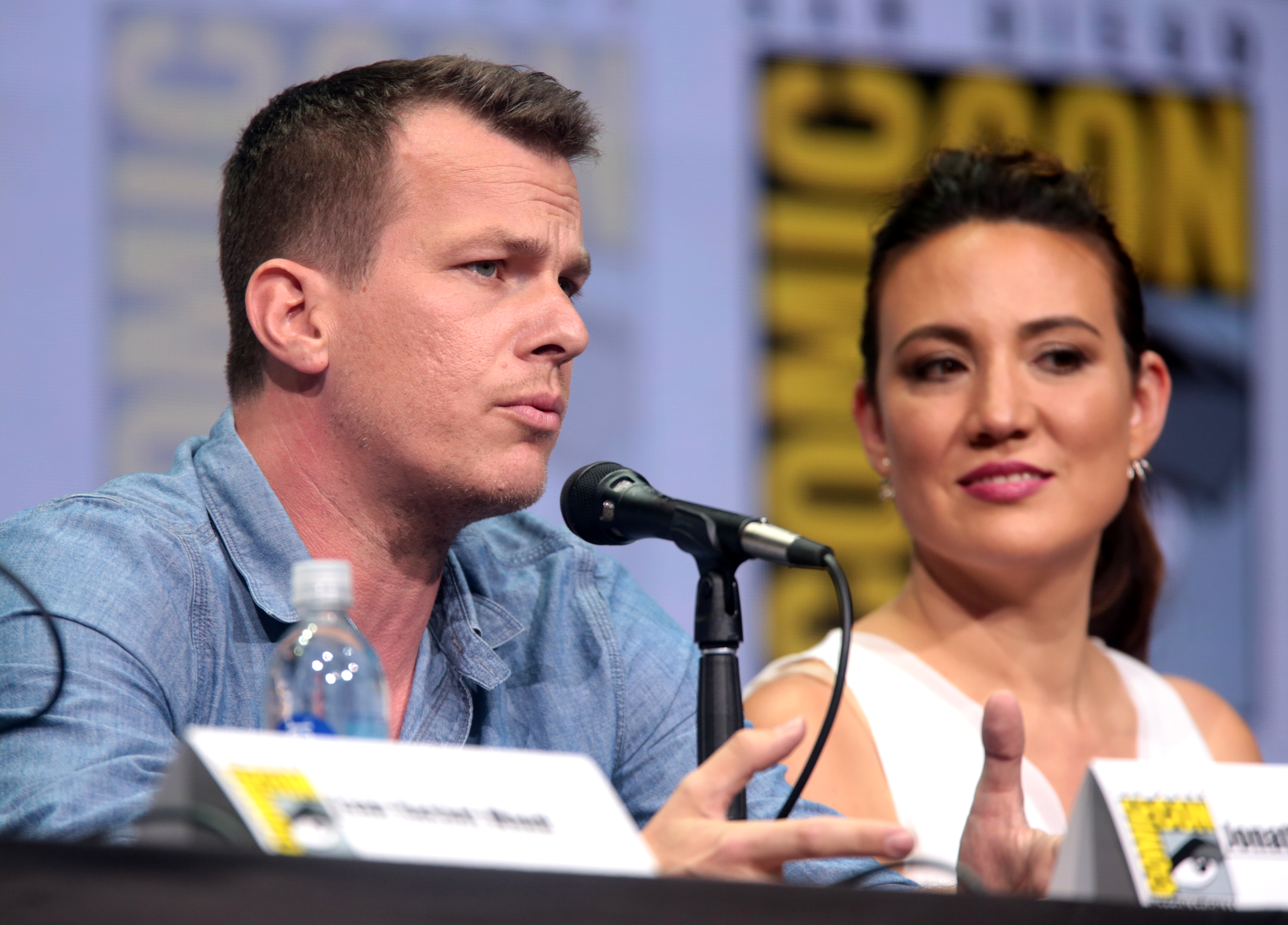 Jonathan Nolan and Lisa Joy speaking at the 2017 San Diego Comic-Con International in San Diego, California.